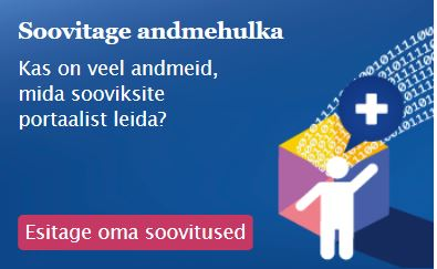 Screenshot from EUODP